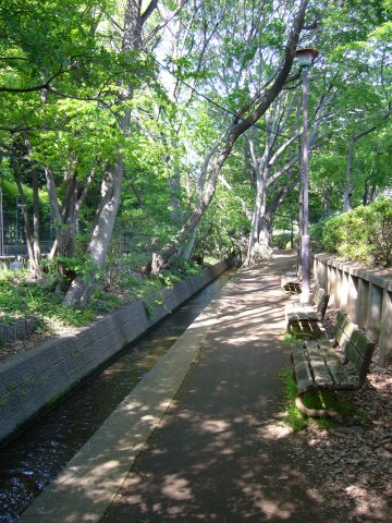 千川上水（西東京市と武蔵野市の境） Senkawa Aqueduct on the border of Nishitokyo and Musashino City, Tokyo